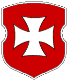 Coat of Arms of Homiel